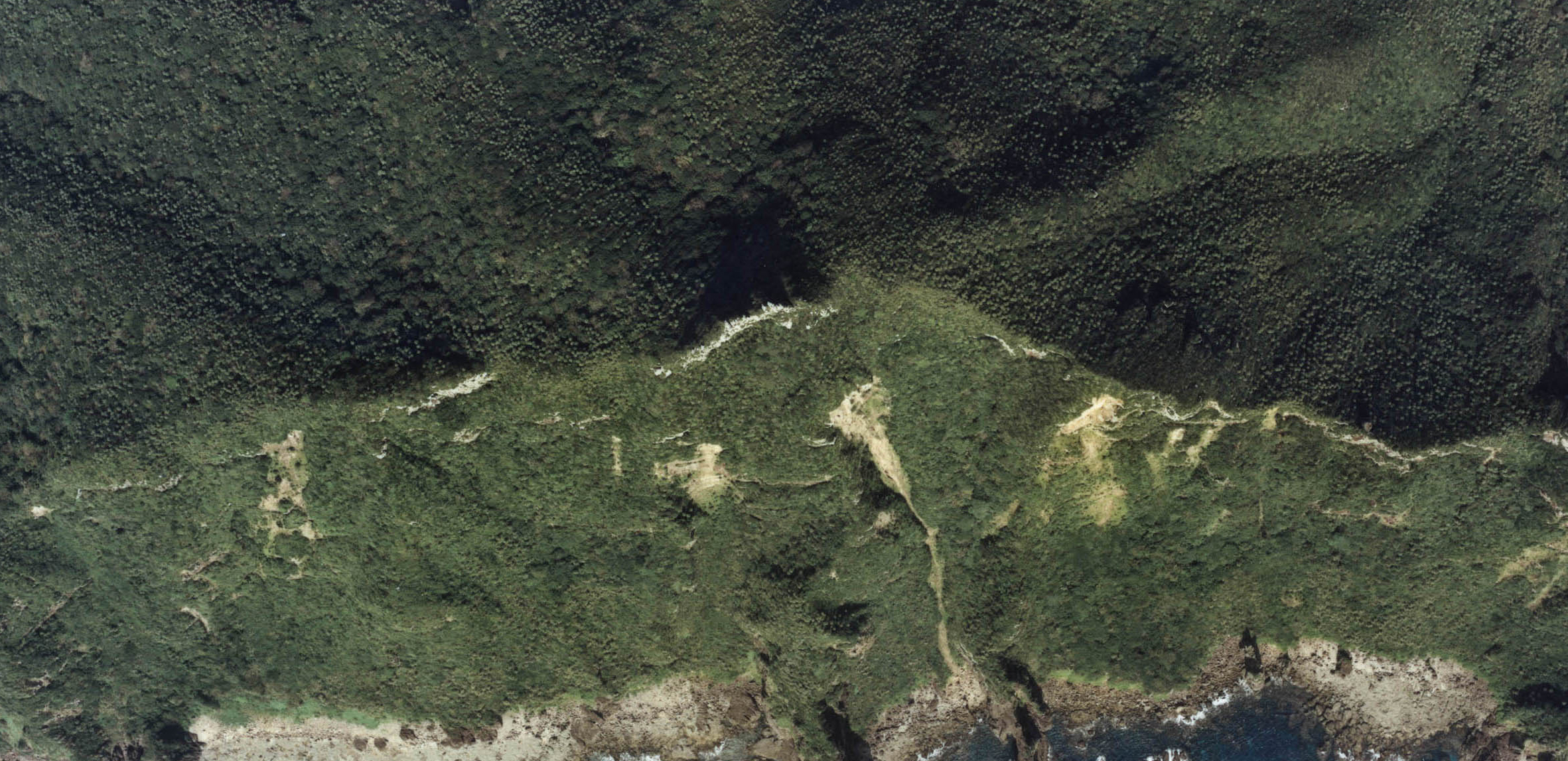 Aerial photo of Mount Narahara, Senkaku Islands